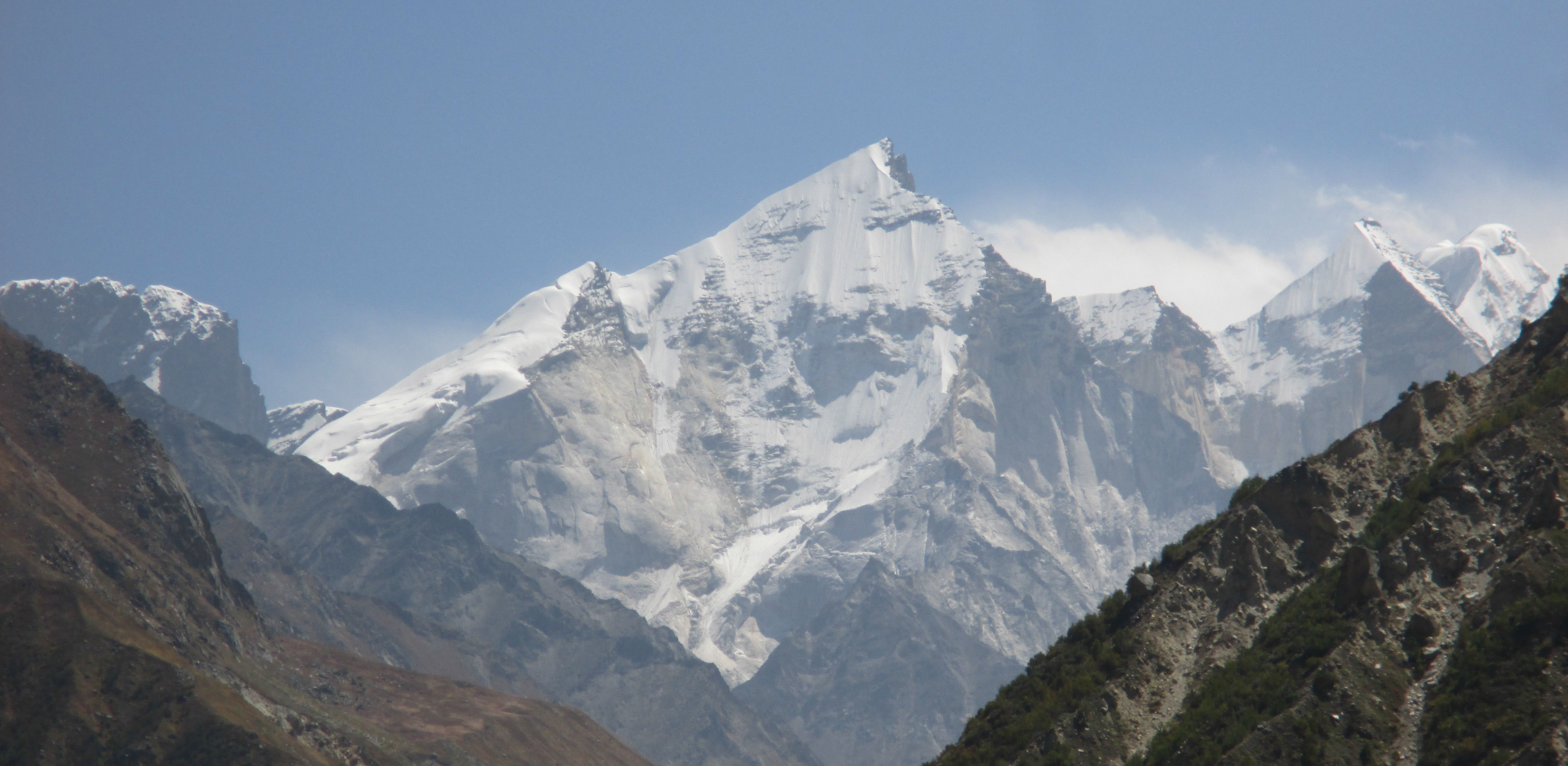 This picture was taken during Kalindi khal Trek.Bhagirathi II(6512), III(6454), I (6856)(L-R)